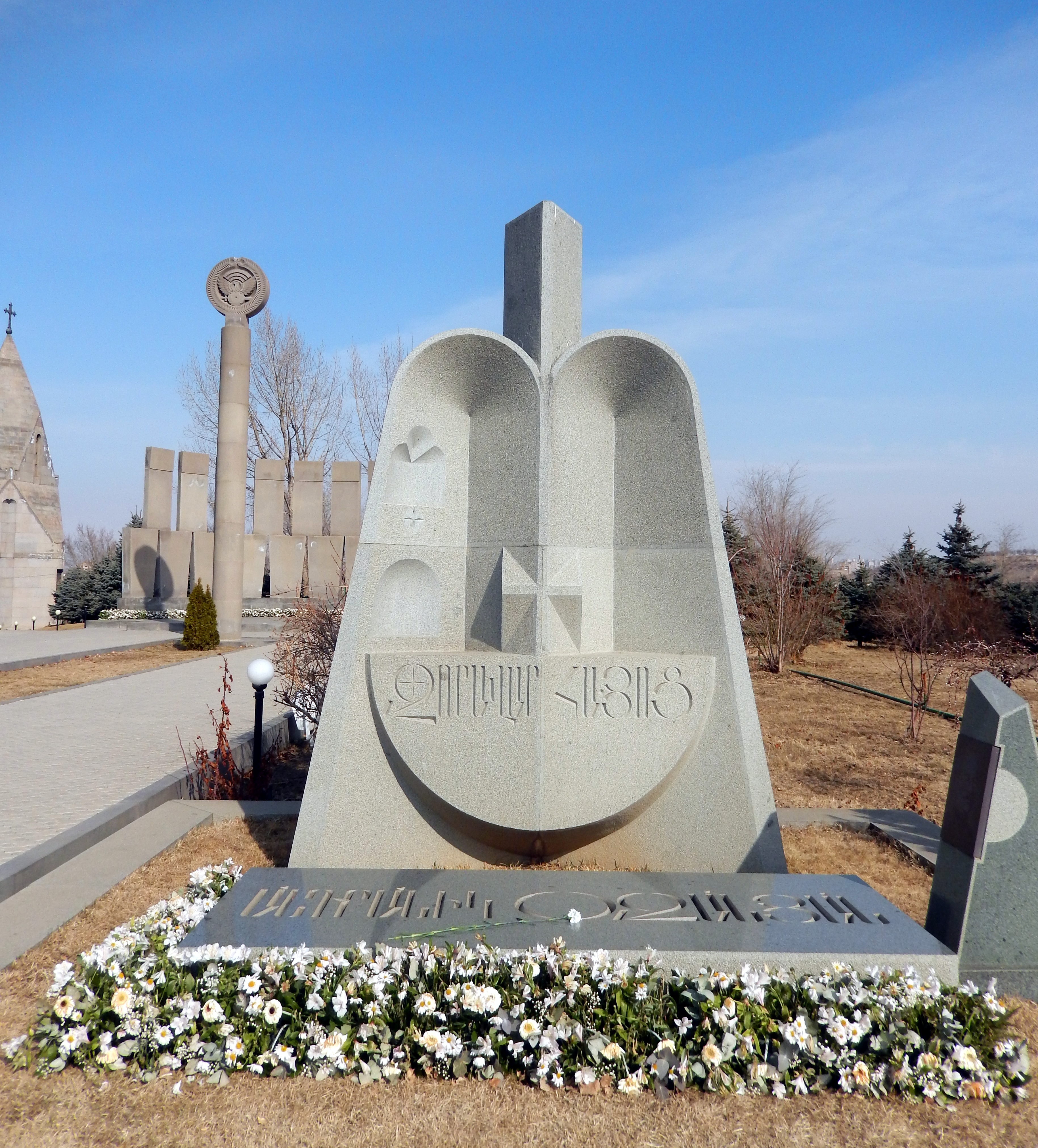 Monument to General Andranik